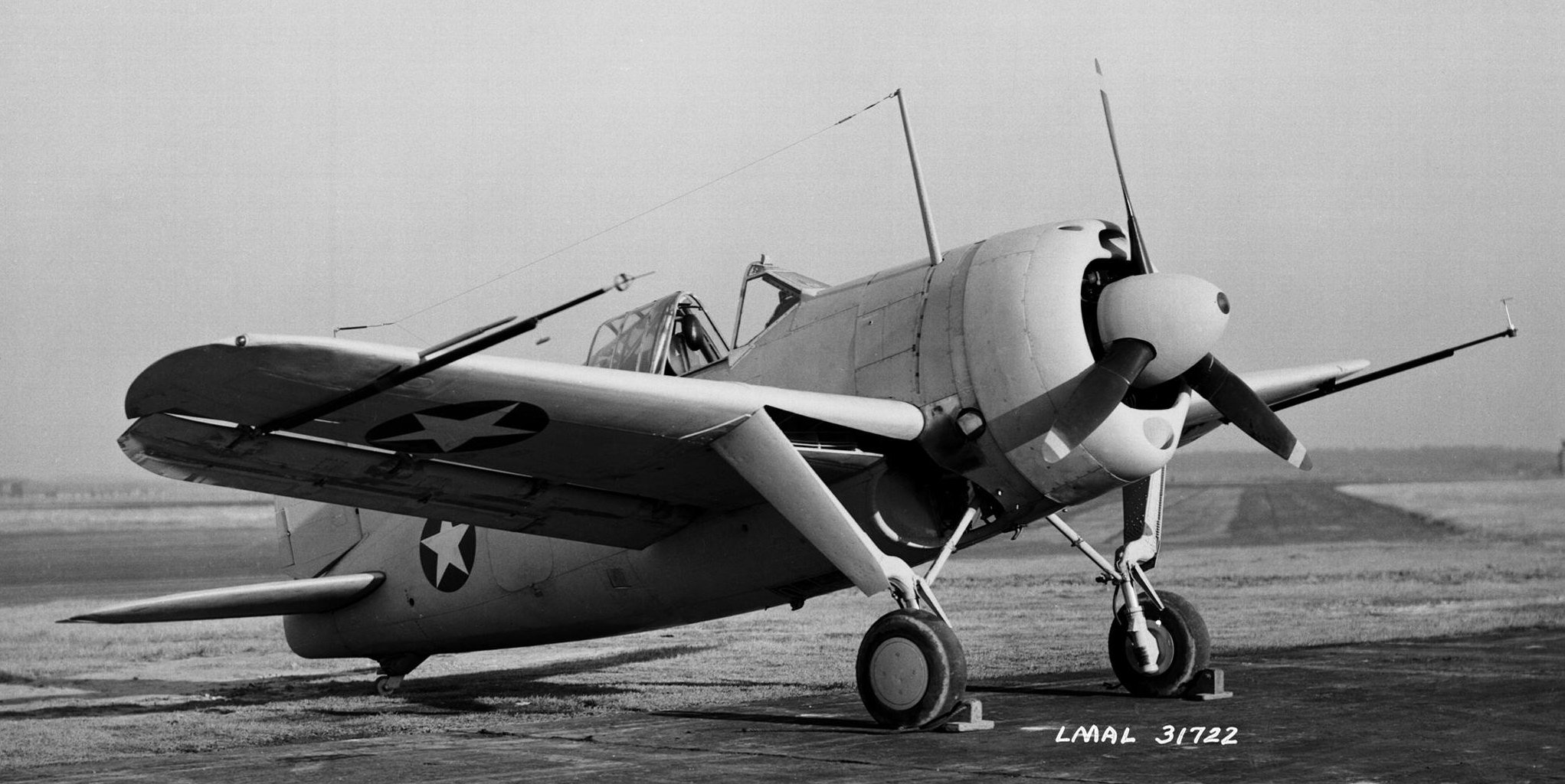 A U.S. Navy Brewster F2A-2 Buffalo at the NACA Langley Research Center, Hampton, Virginia (USA), on 9 February 1943.Original description (NASA): "Brewster F2A-2 Buffalo: The Navy's Brewster F2A-2 Buffalo did not prove to be a particularly effective fighter aircraft, but that did not prevent countries such as England, Finland, and Australia from operating version of the Buffalo. This F2A-2 arrived at Langley from the factory by truck in 1942, and was sent to NAS Norfolk two years later."